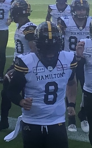 Jeremiah Masoli, quarterback for the Hamilton Tiger-Cats.